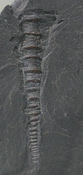 Tentaculite from the Geological Museum of the Polish Geological Institute, Warsaw